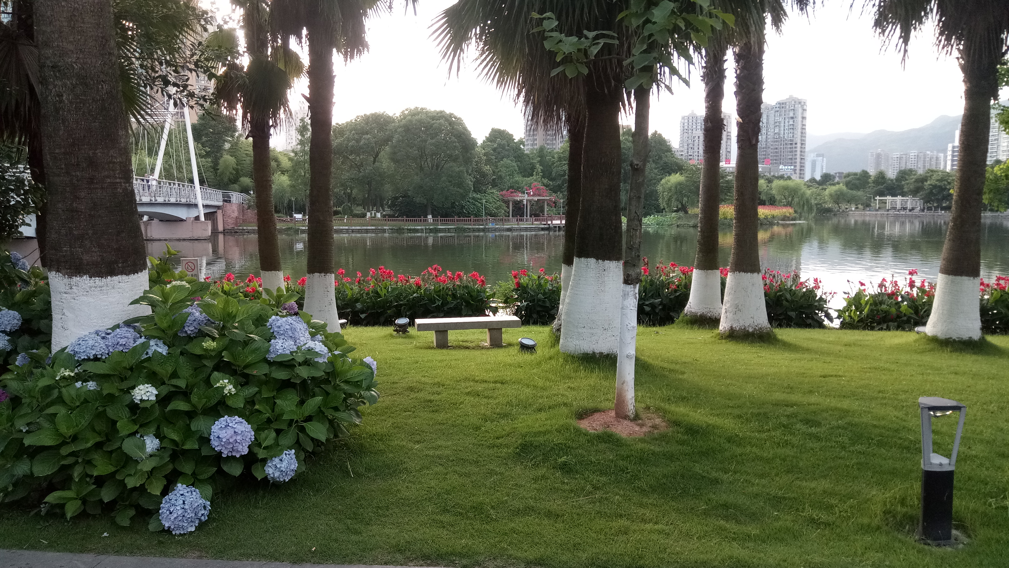 Central Park View